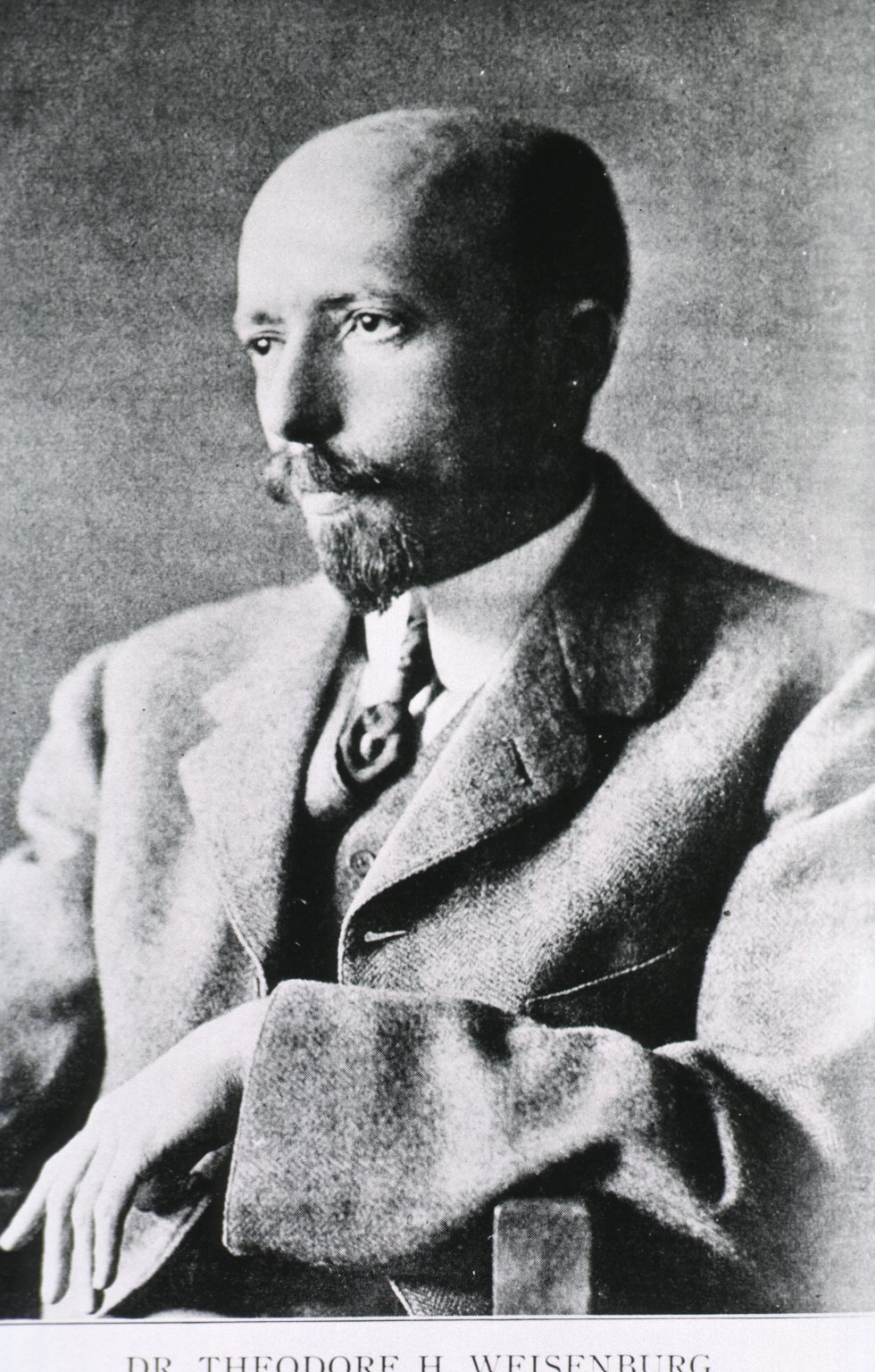 Theodore H. Weisenburg